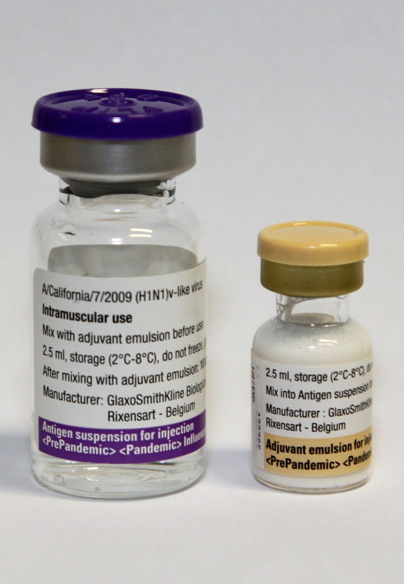 Pandemrix, 2009 flu pandemic vaccine produced by GlaxoSmithKline. Big ampulla with purple cap contains antigen solution. Small ampulla with yellow cap contains immunologic adjuvant AS03 in a emulsion.